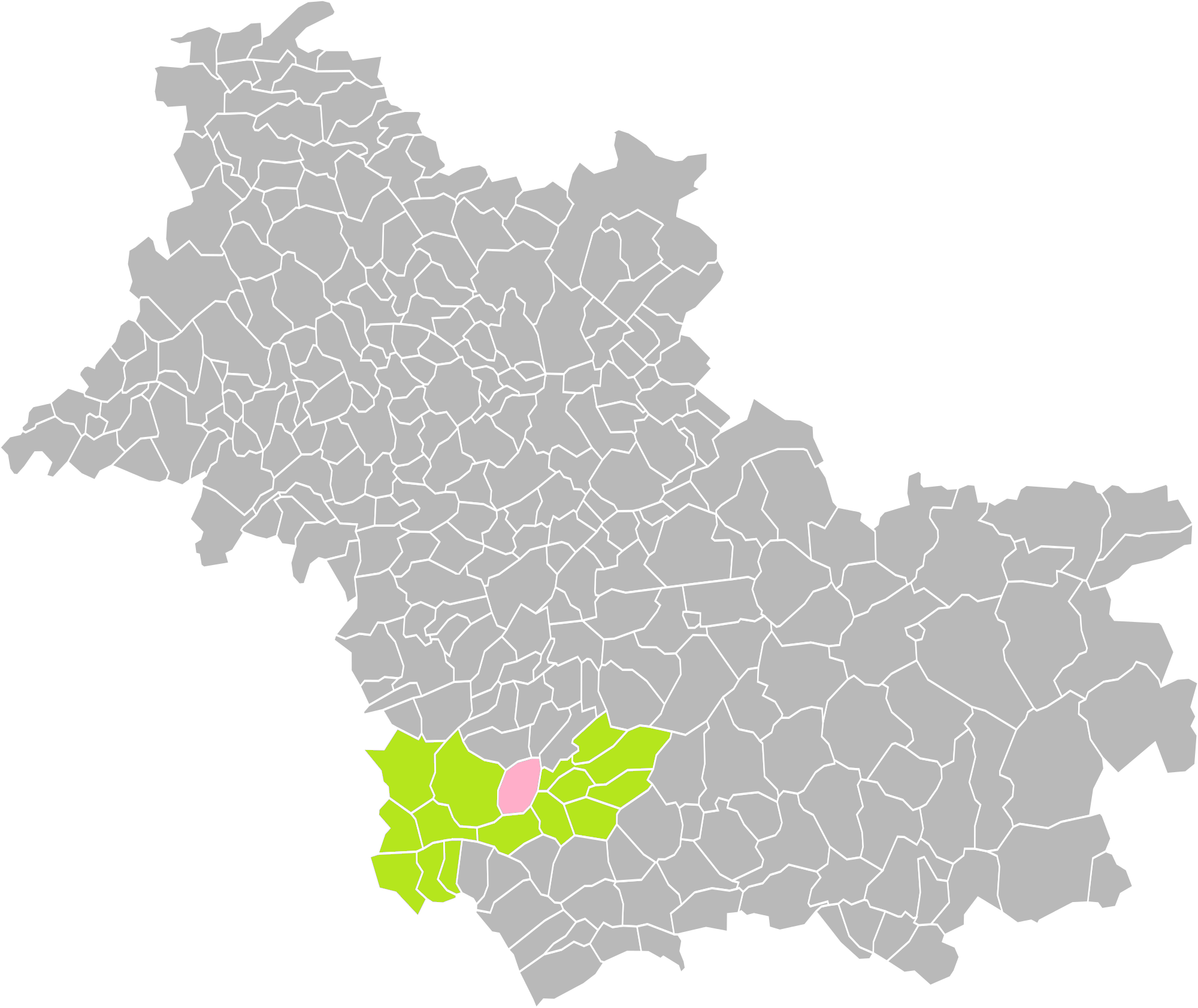 Location of the commune of Thenay in the canton of Montrichard (Loir-et-Cher)